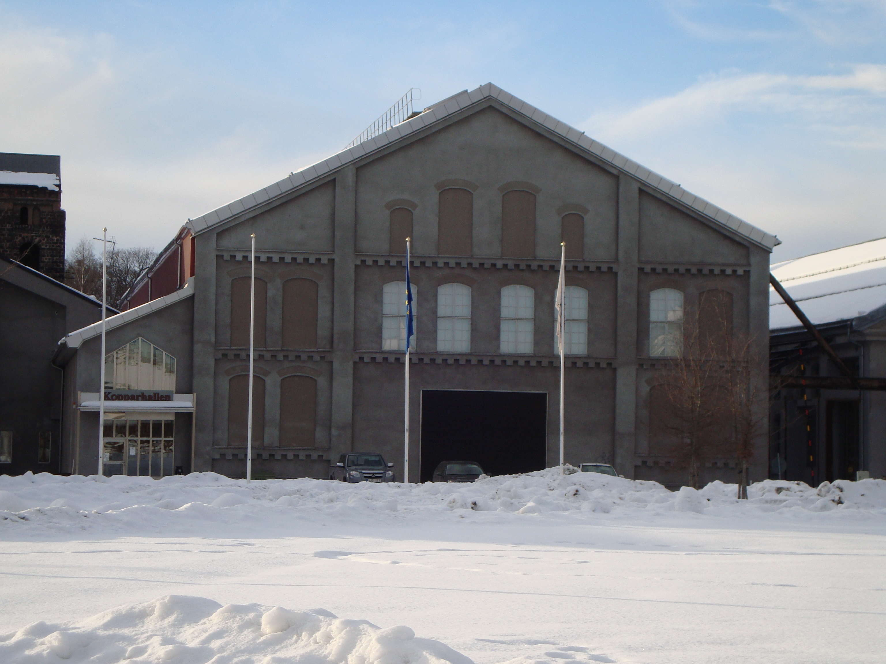 Kopparhallen, a sports arena in Avesta, Sweden.